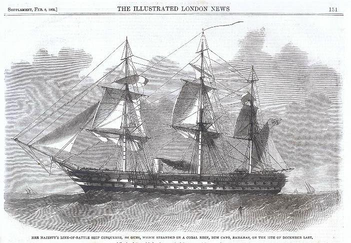 Engraving depicting HMS Conqueror (1855), wrecked off the coast of Rum Cay, Bahamas.